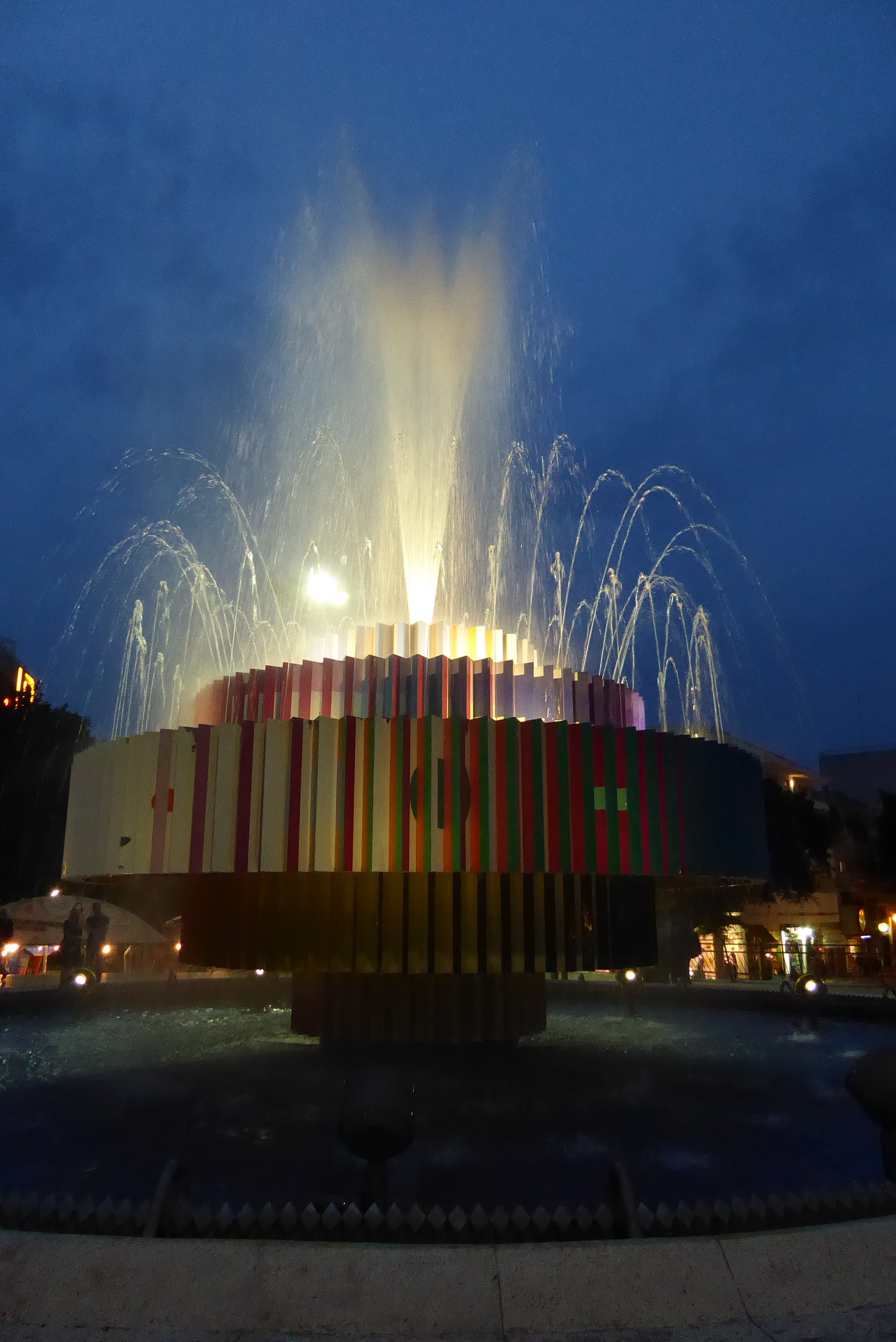 Dizengoff Square